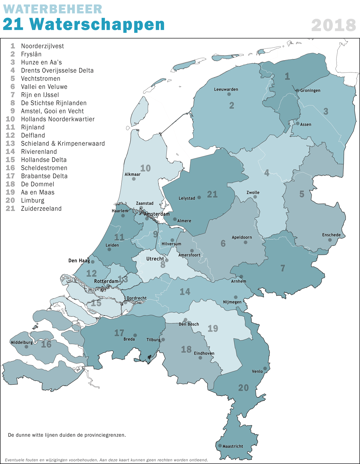 Overview map of the 21 Dutch Polder Boards ("Waterschappen") as of 2018, including the provincial borders.